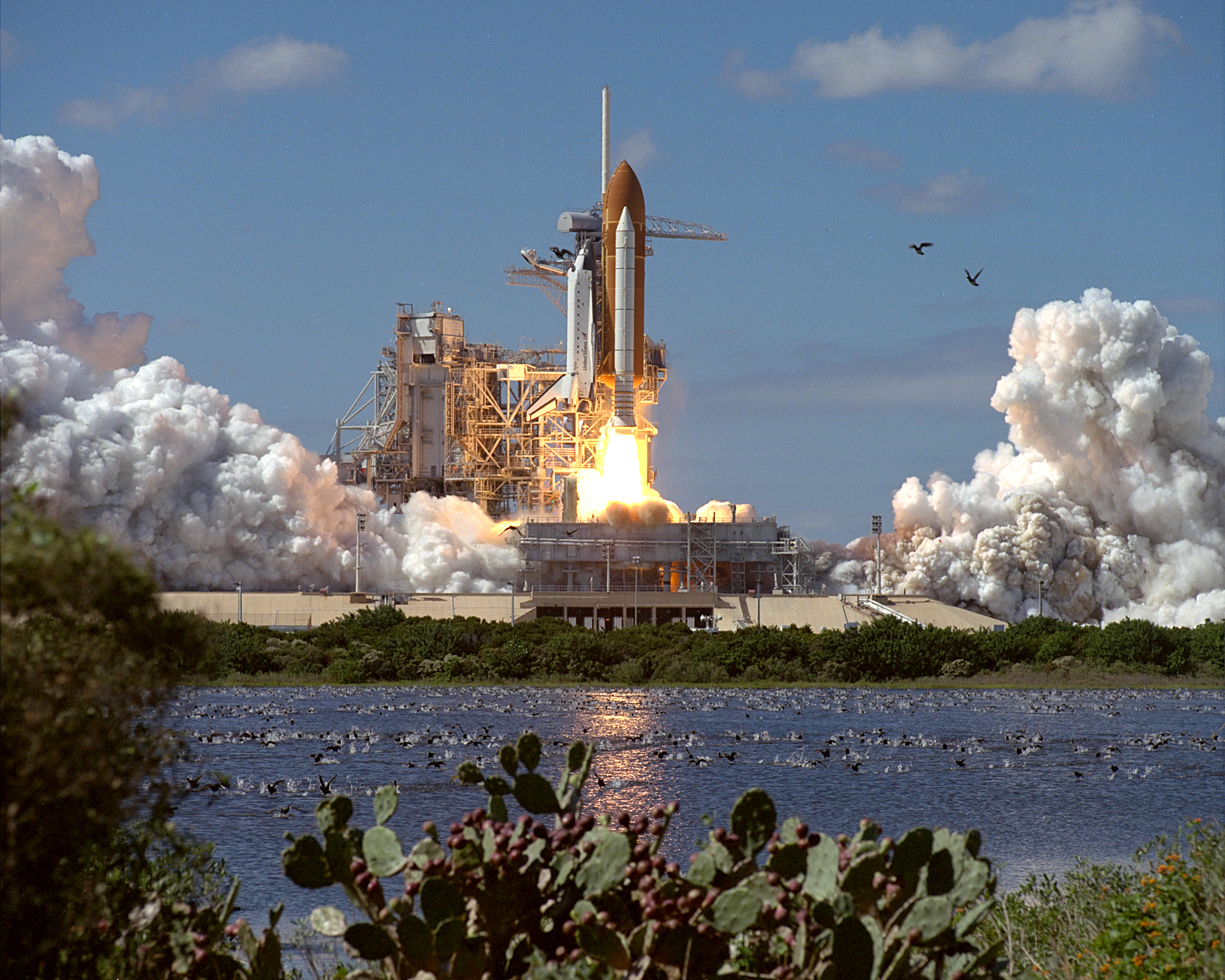 Hundreds of birds scatter as the typical quiet reverie of their day is temporarily broken by the roar of a Space Shuttle surging off the pad. The orbiter Atlantis returned to space after an approximately two-year absence with a liftoff from Launch Pad 39B at 11:59:43 a.m. EST. The planned 11-day flight of Space Shuttle Mission STS-66 will continue NASA's Mission to Planet Earth, a comprehensive international collaboration to study how Earth's environment is changing and how human beings affect that change. Primary payloads for the last Shuttle flight of 1994 include the Atmospheric Laboratory for Applications and Science (ATLAS-3), making its third flight, and the German-built Cryogenic Infrared Spectrometers and Telescopes for the Atmosphere-Shuttle Pallet Satellite (CRISTA-SPAS), which will be deployed and later retrieved during the mission. Mission commander is Donald R. McMonagle; Curtis L. Brown Jr. is the pilot; Ellen Ochoa is the payload commander, and the three mission specialists are Joseph R. Tanner, Scott E. Parazynski, and Jean-Francois Clervoy, a French citizen who is with the European Space Agency.